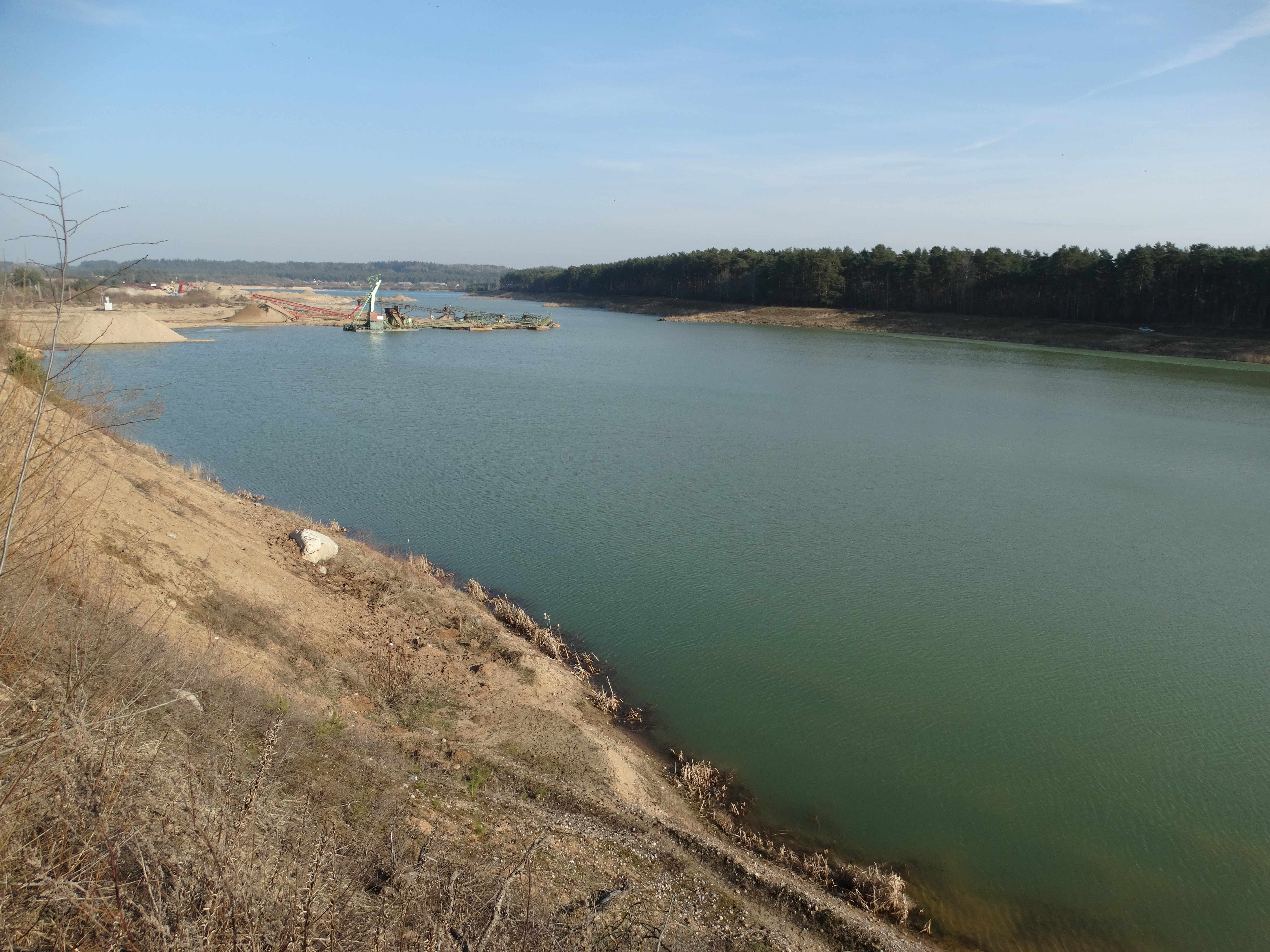 Drąseikiai quarry pond, Kaunas district, Lithuania